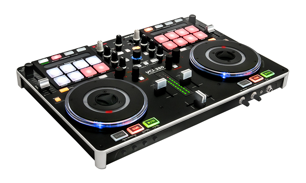 Vestax MIDI DJ controller